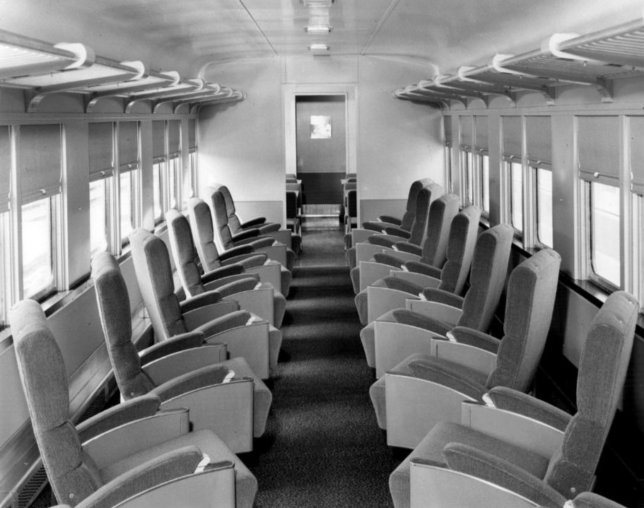 Photo of the combination coach/cafe car on the Great Northern Cascadian. The car combined reserved coach seating seen here with a cafe/coffee shop.